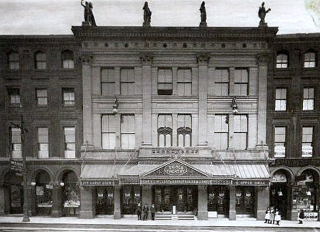 The front of the Prince's Theatre Bristol c1905